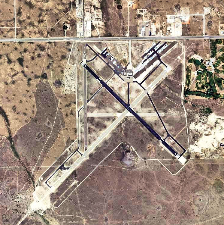 USGS digital orthophoto of Lea County Regional Airport in New Mexico